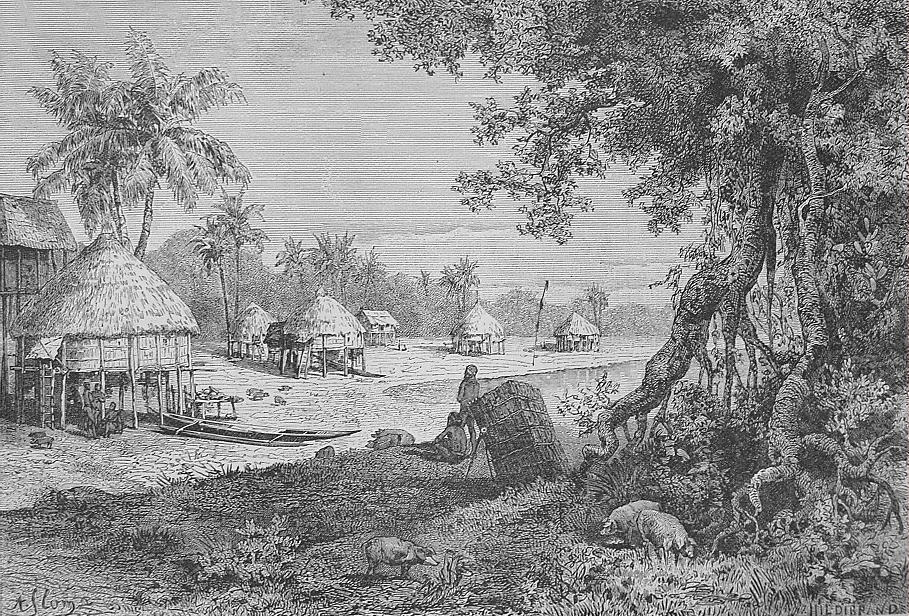 "Landscape in Car-Nicobar: Village of Sawi," from The Earth and its Inhabitants, by E. Reclus (D. Appleton and Col, 1884) Source: ebay, Apr. 2006